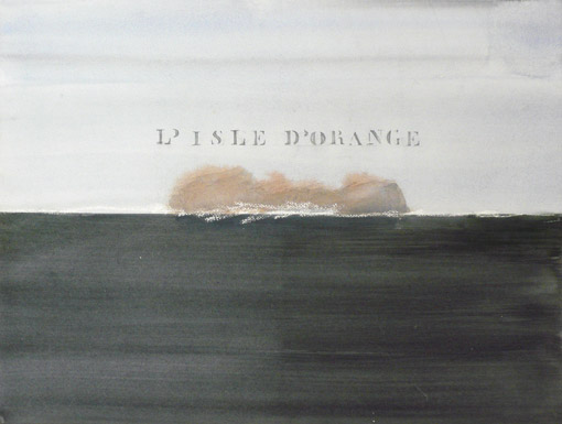 L'isle d'orange, 2011, acquerello